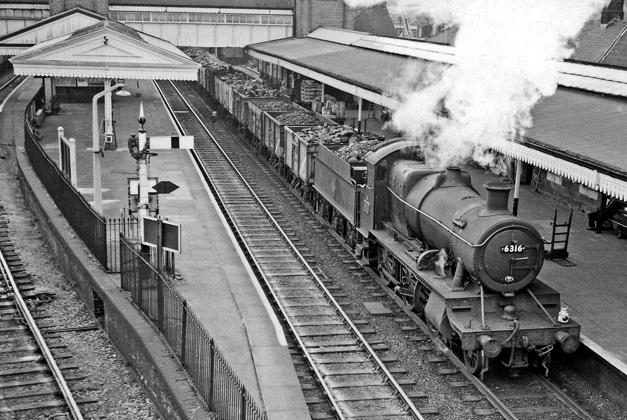 Up local coal train at Wrexham General station. View northward, towards Chester; ex-GW Birmingham etc. - Shrewsbury - Chester main line. On the left is the ex-GC/LNE line at Wrexham Exchange (off picture) on the line from Seacombe, Bidston and Chester (Northgate) to Wrexham Central. The Class K coal train is probably running from Gresford Colliery to Croes Newydd Yard. The locomotive is Churchward 43XX 2-6-0 No. 6316 (built 1/21, withdrawn 7/62).